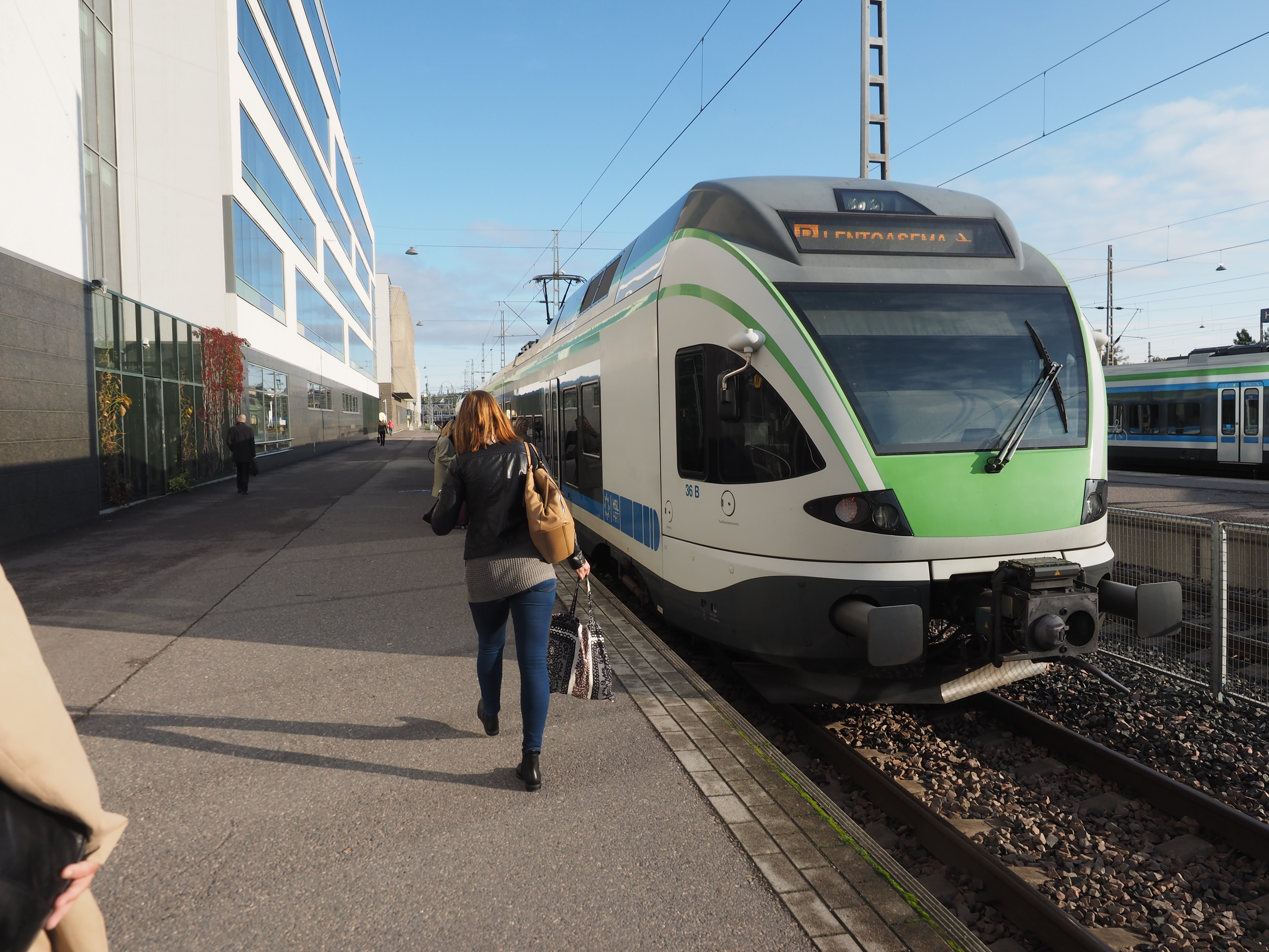 A Helsinki commuter train on the P line from Helsinki Central railway station to the Helsinki-Vantaa airport and then back to Helsinki Central on the Ring Rail track at Helsinki Central railway station. Only the upper half of the line and destination display is shown on the train as the exposure time was shorter than the refresh rate of the display.